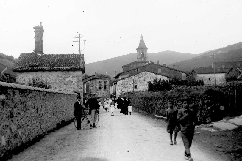 Anzuola. Vista parcial, Indalecio Ojanguren, 1915